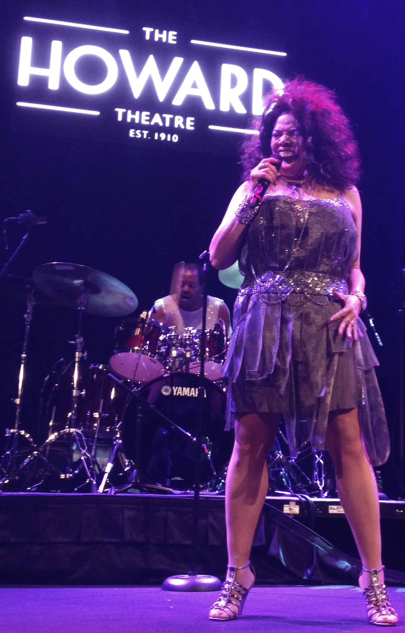 Millie Jackson live at the Howard Theatre, Washington, D.C., on August 3, 2012.